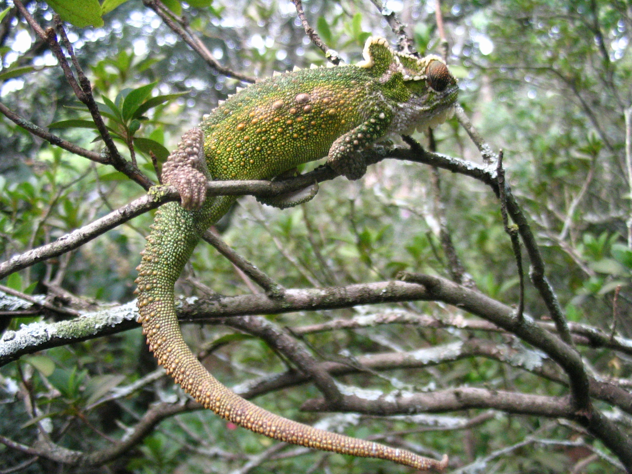 Image of Natal Midlands Dwarf Chameleon.